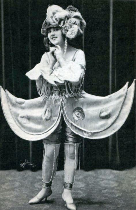 Christine Welford in the 1921 Broadway musical revue George White's Scandals, on page 11 of the August 1921 The Tatler.